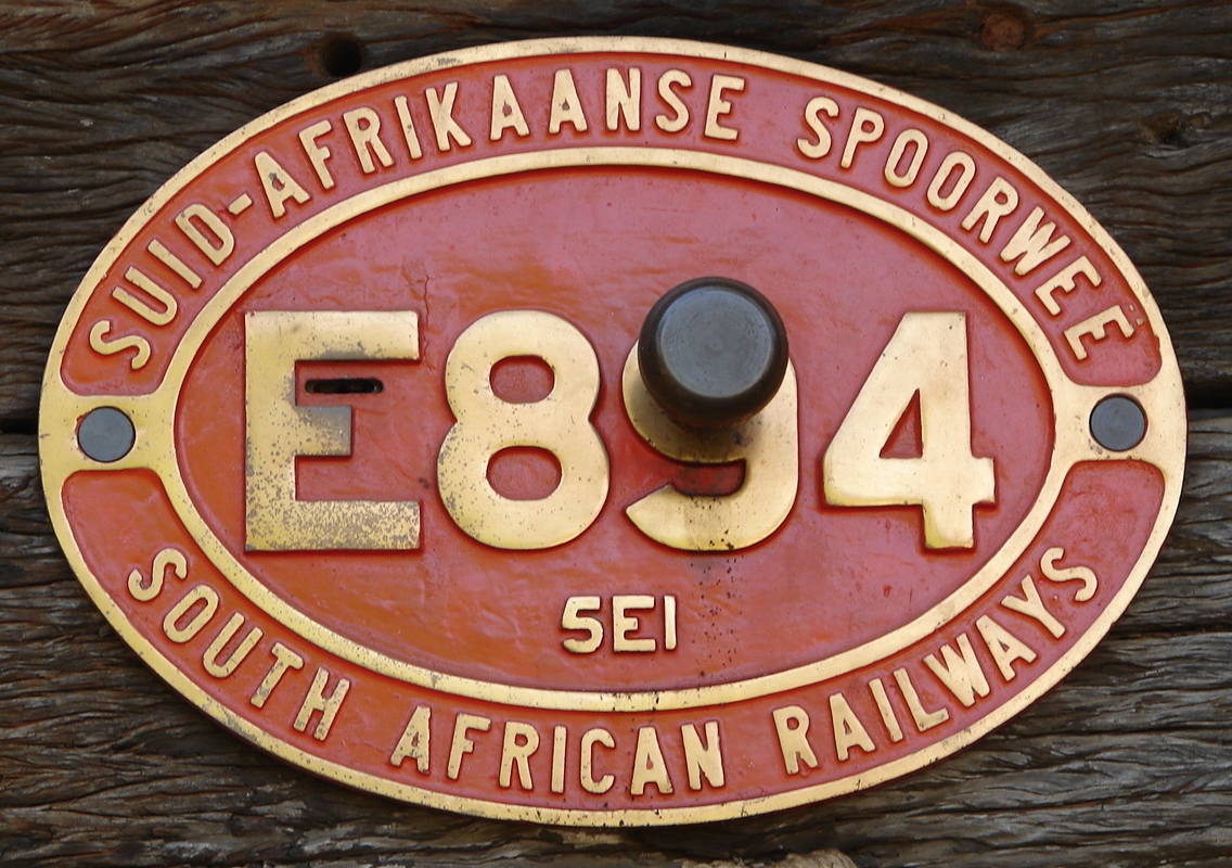 Probably all that remains of SAR Class 5E1 Series 4 E894, one of her number boards now serves as backing plate to a door knob at 'Die Stasie' at Sentrarand Depot